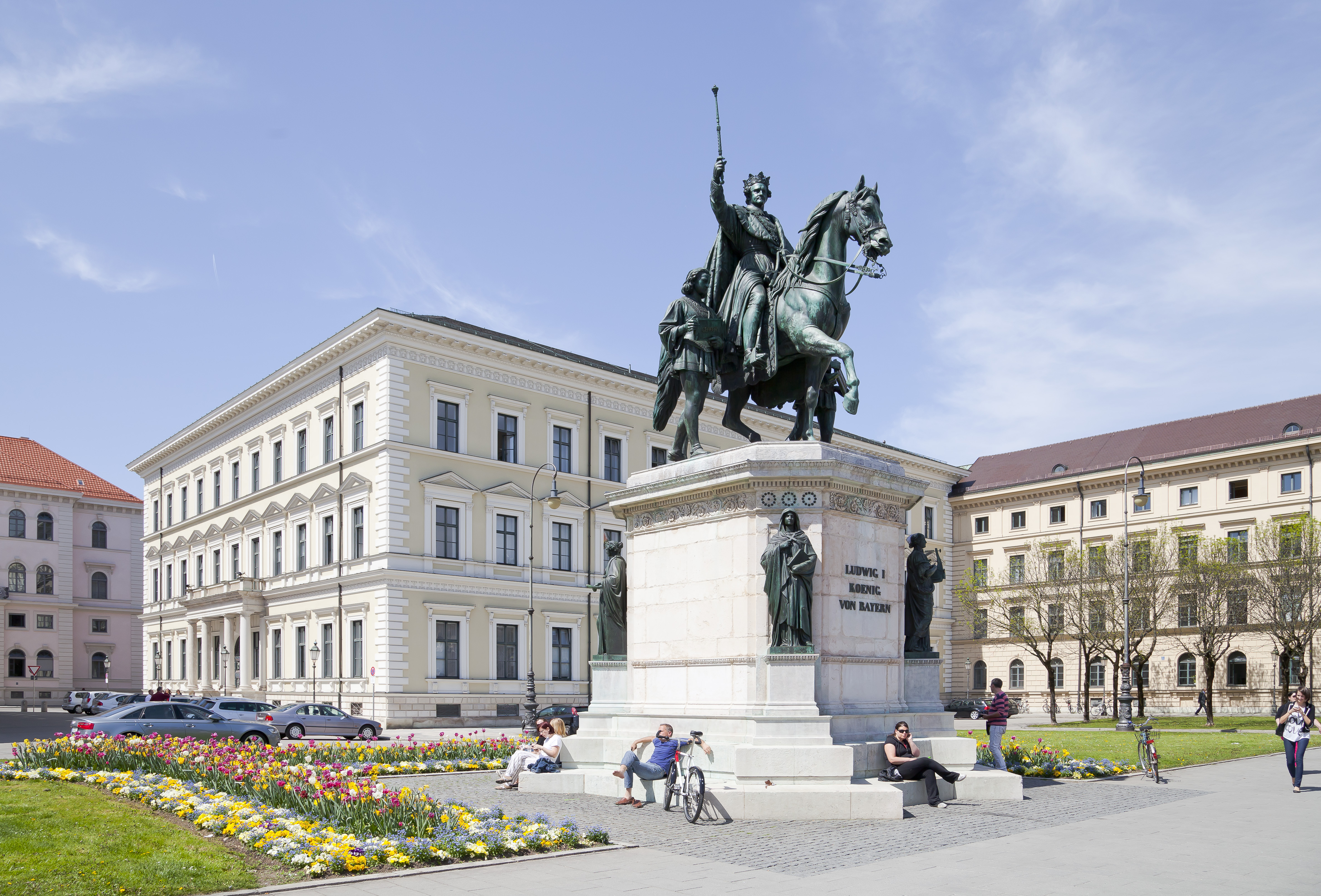 Statue of Louis I of Bavaria, Munich, Germany